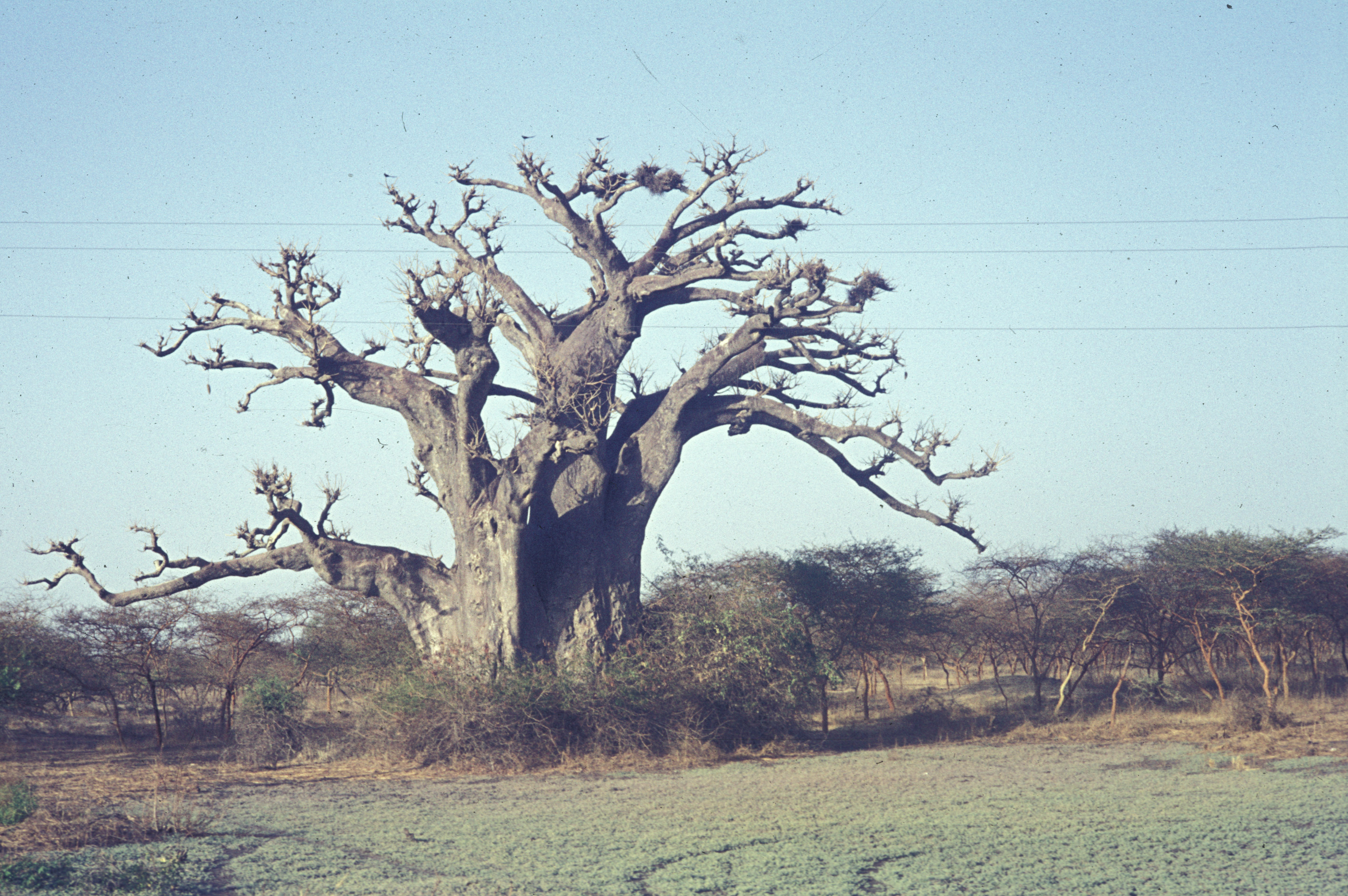 Acacia trees and a Baobab tree, Adansonia species [Adansonia digitata ?], in the Sahel sub-Saharan savanna ecoregion, Mali.